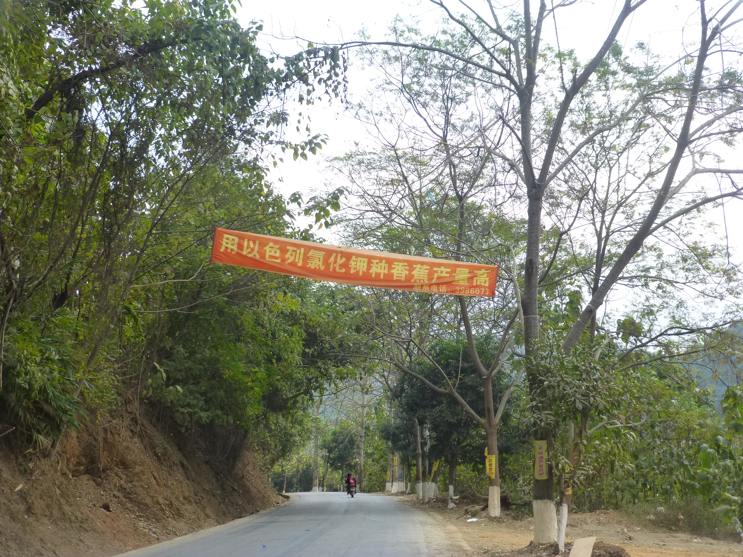 On China National Highway 326 in a banana-growing district in the valley of the Red River in Lianhuatan Township (Hekou County, Yunnan), between Manhao highway exit and Lianhuatan township center. The ad hanging above the road says, "用以色列氯化钾种香蕉产量高" - "With the use of Israeli Potassium Chloride, raise the banana yields." ("Israeli Potassium Chloride" may be a brand name, perhaps that of Israel Chemicals, who have a branch in China. Elsewhere, one can see claims that the mineral fertilizer is indeed produced at the Dead Sea in Israel, although it may be just a marketing statement not connected with reality. China has plenty of salt lakes too, after all, in Qinghai mostly)